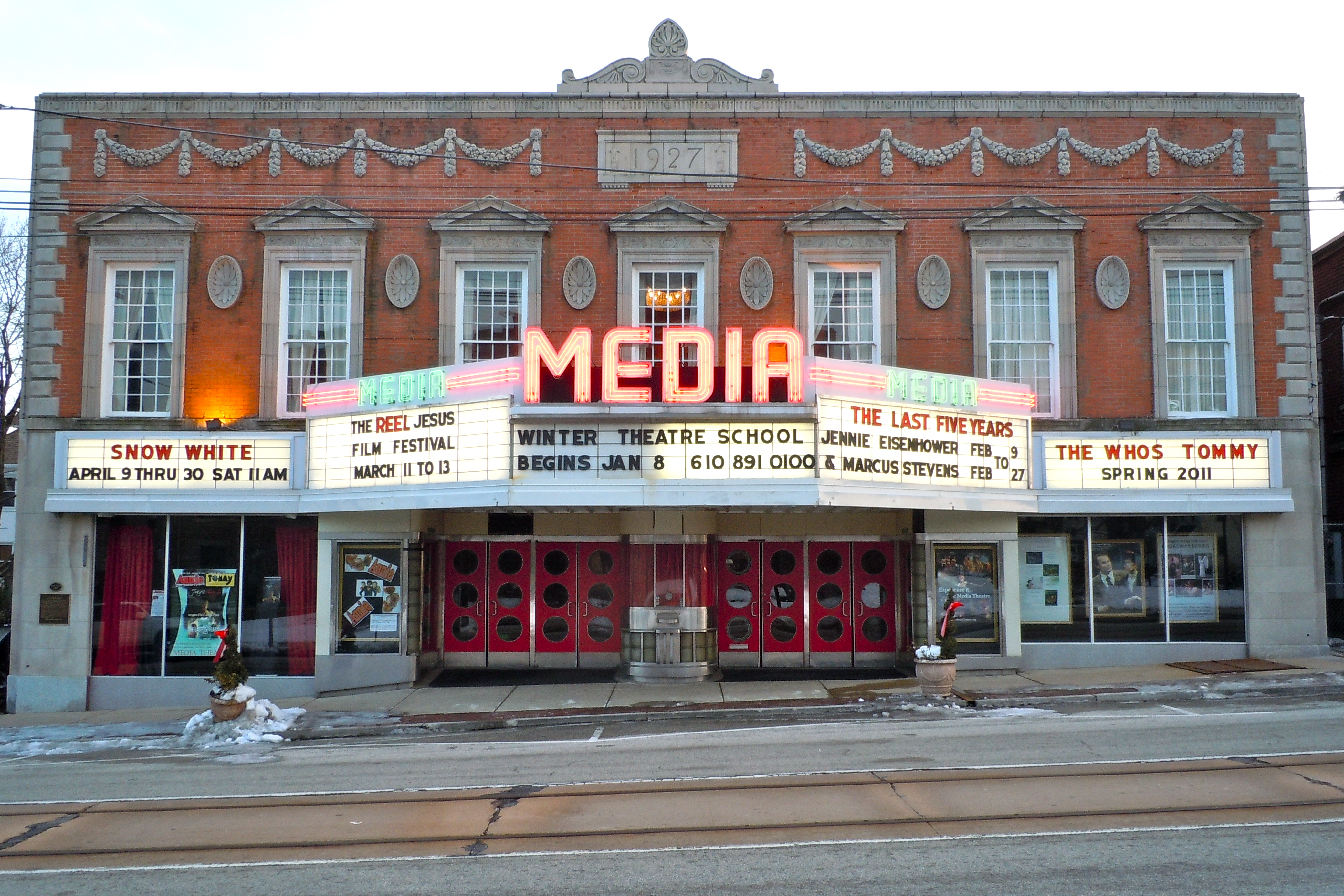 Media Theater — in Media, Pennsylvania. Built 1927 as a cinema. Now housing a community theater.